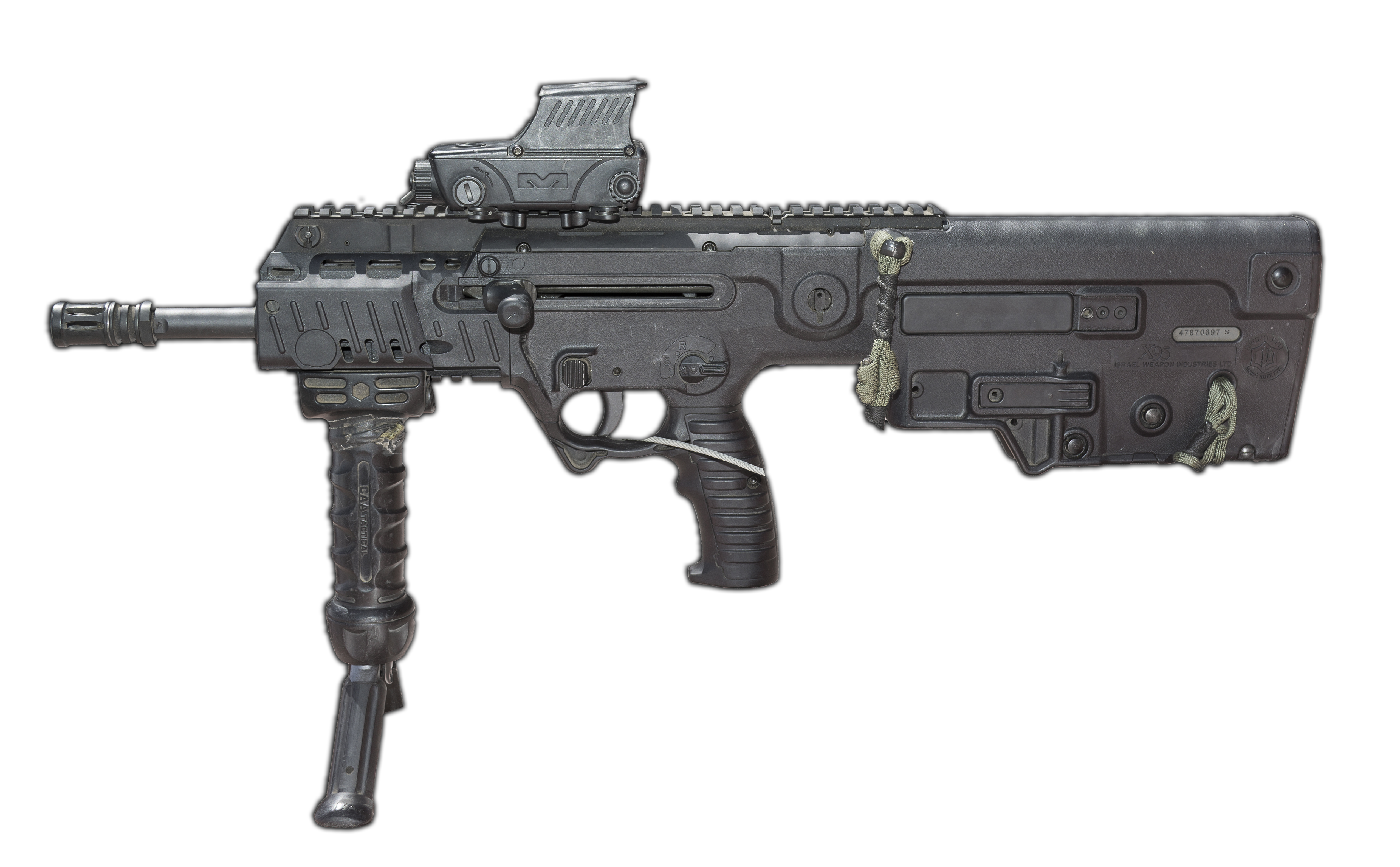 IDF's IWI Tavor X-95 Flat-top, Israel's 71th Independence Day, Yad LaShiryon, Israel, 2019